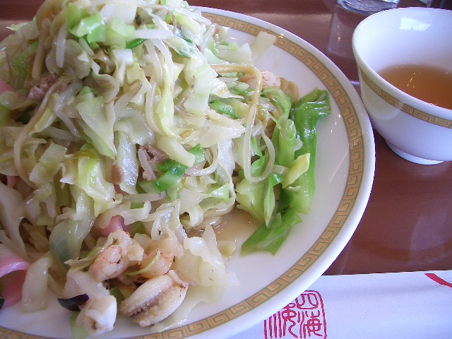 Nagasaki sara udon, deep-fried noodle with sauce, is a cuisine from China in Nagasaki style. Served at Shikai-roh, Nagasaki.saraudon / 皿うどん